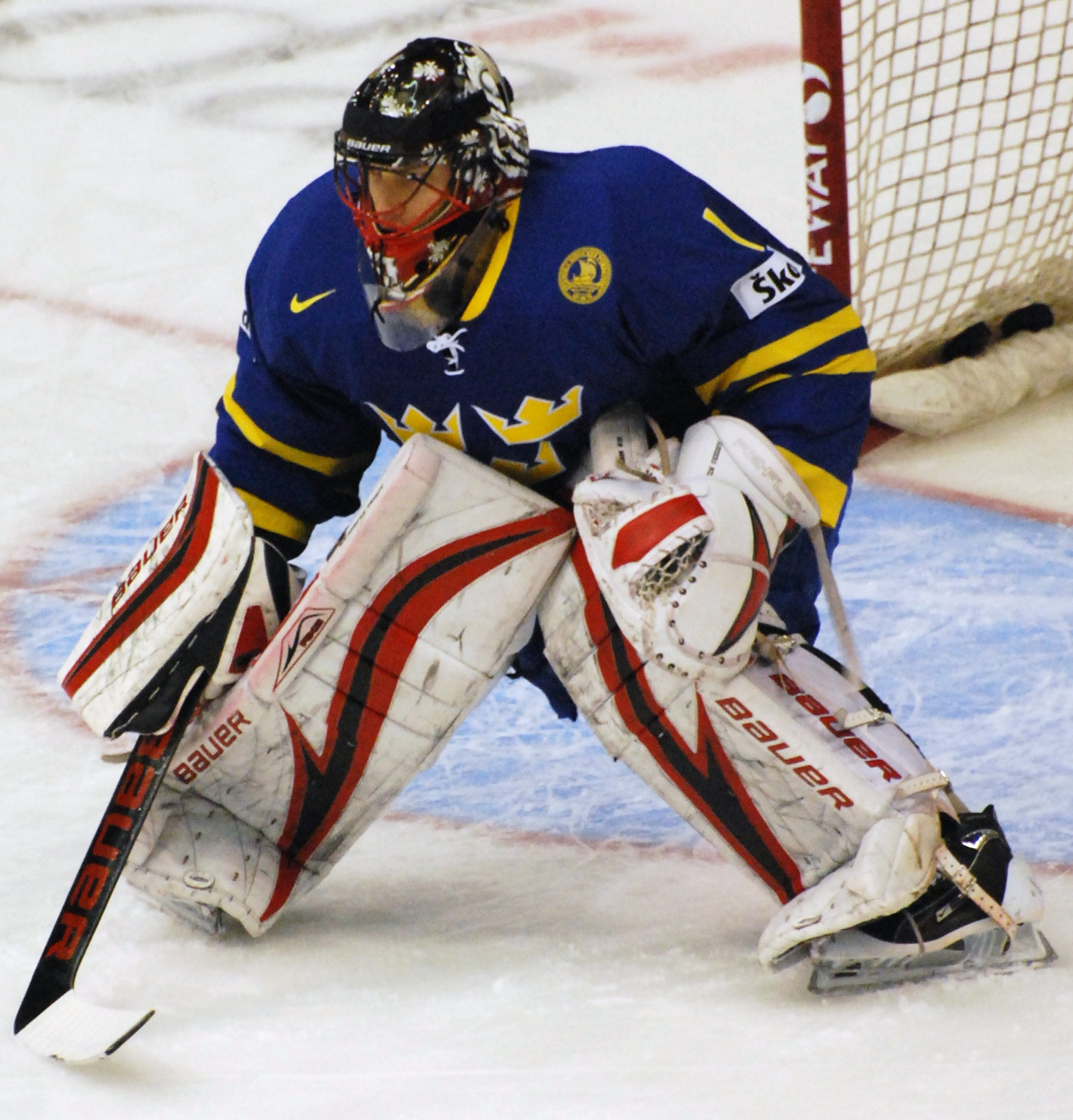 Anders Nilsson warms up for a game against Austria at the 2010 IIHF World Junior Championships.